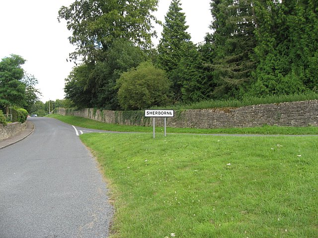 From the book, "Lord Sherborne" (I took this photo)